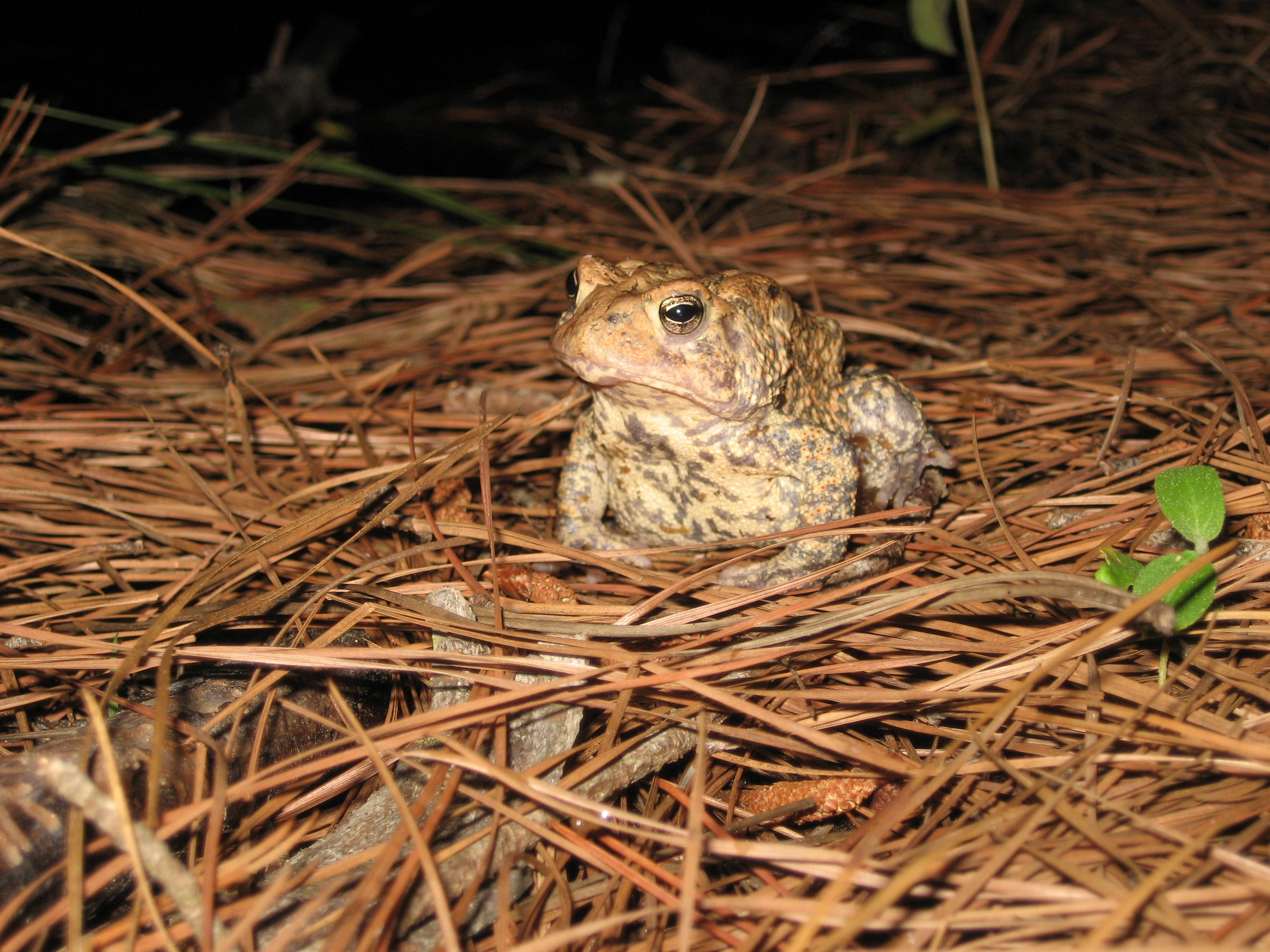 Photo credit: Paige Najvar/USFWS